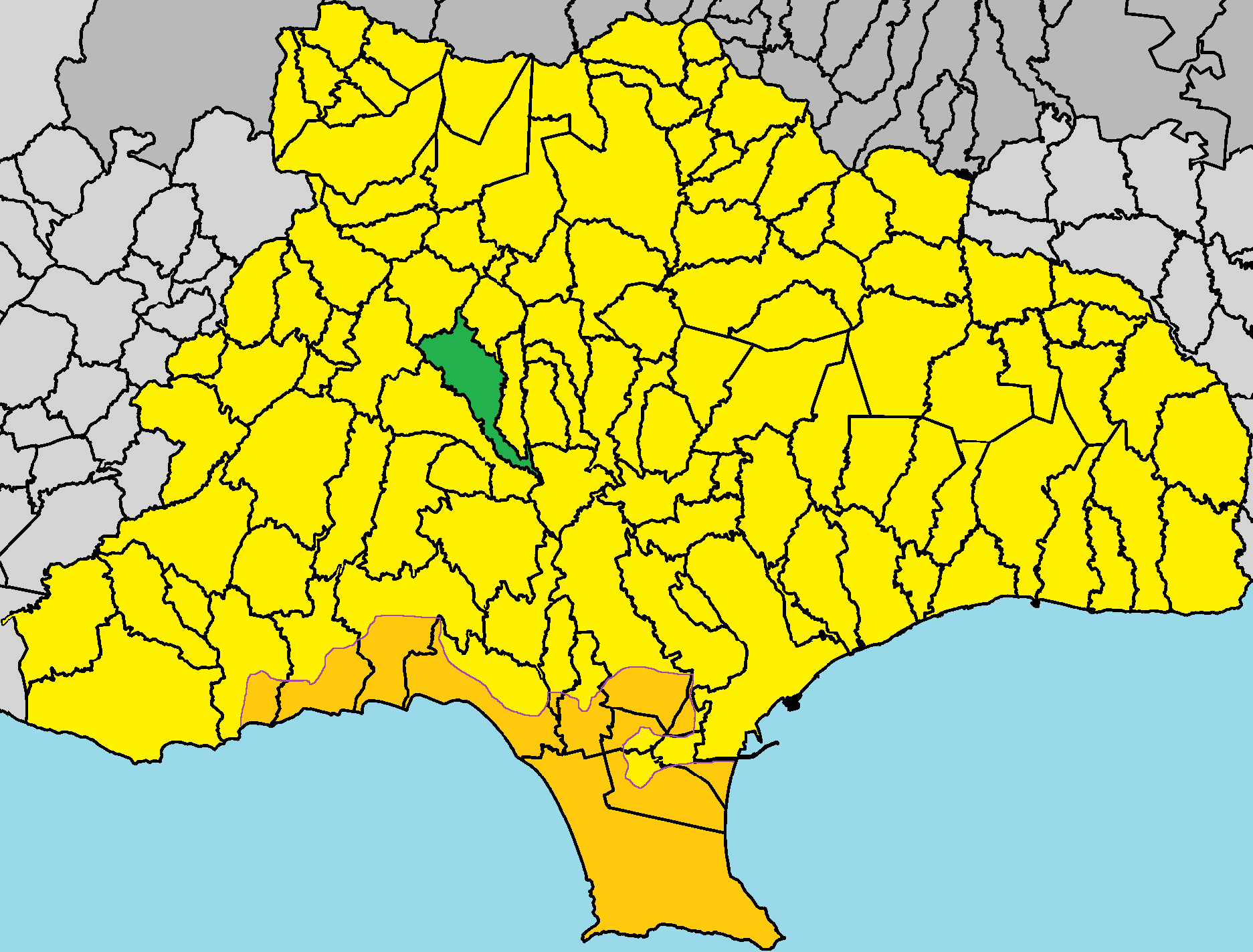 Lofou in Limassol District.